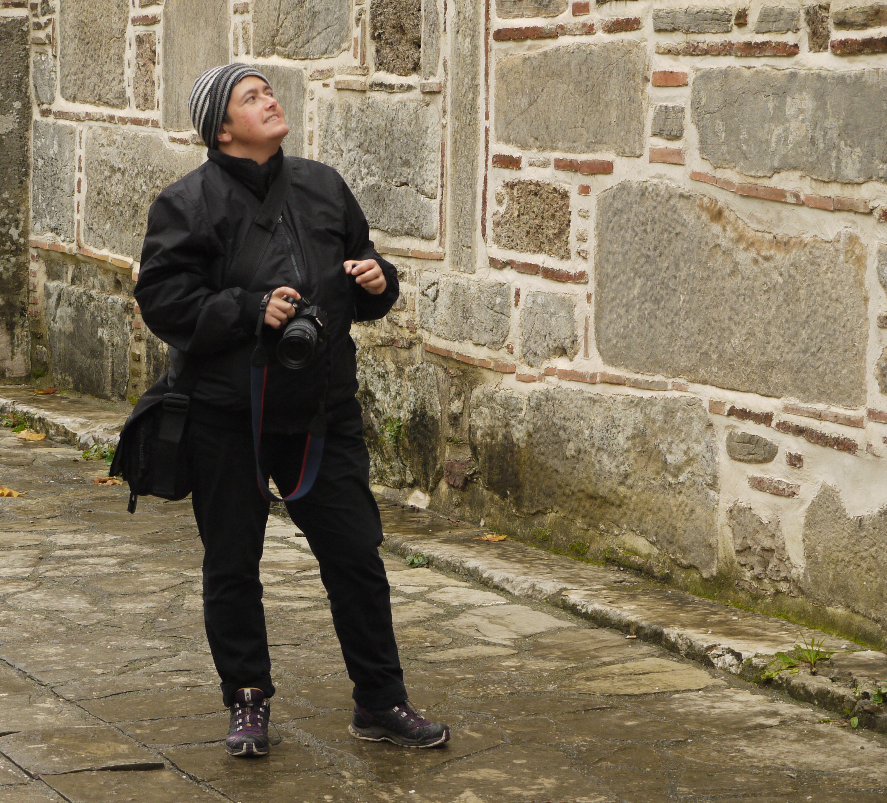 Liz James at Panagia Porta, Thessaly.